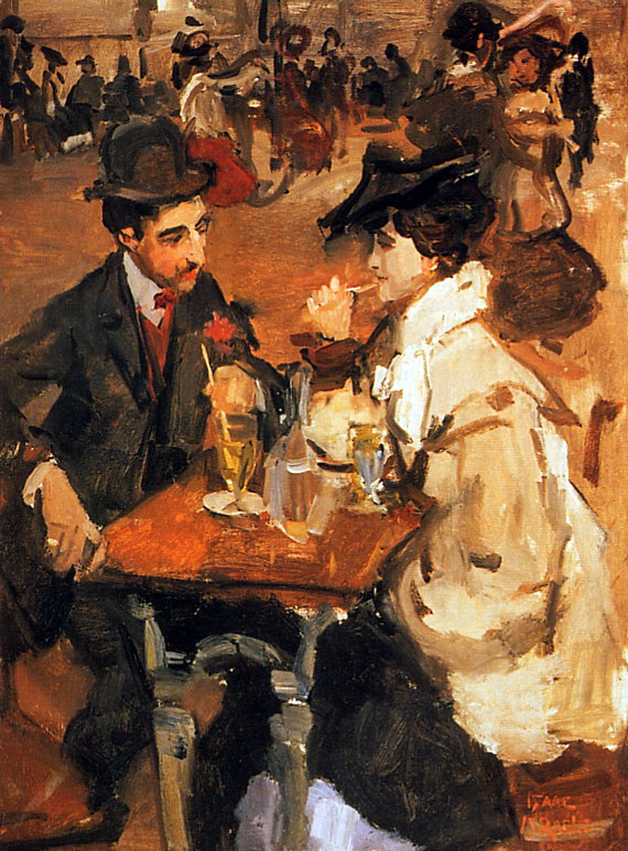 Moulin de la Galette